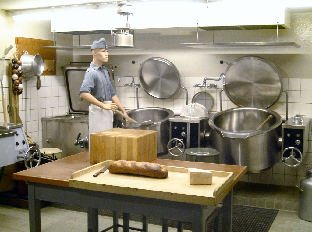 The kitchen of the Heldsberg military fortress museum.